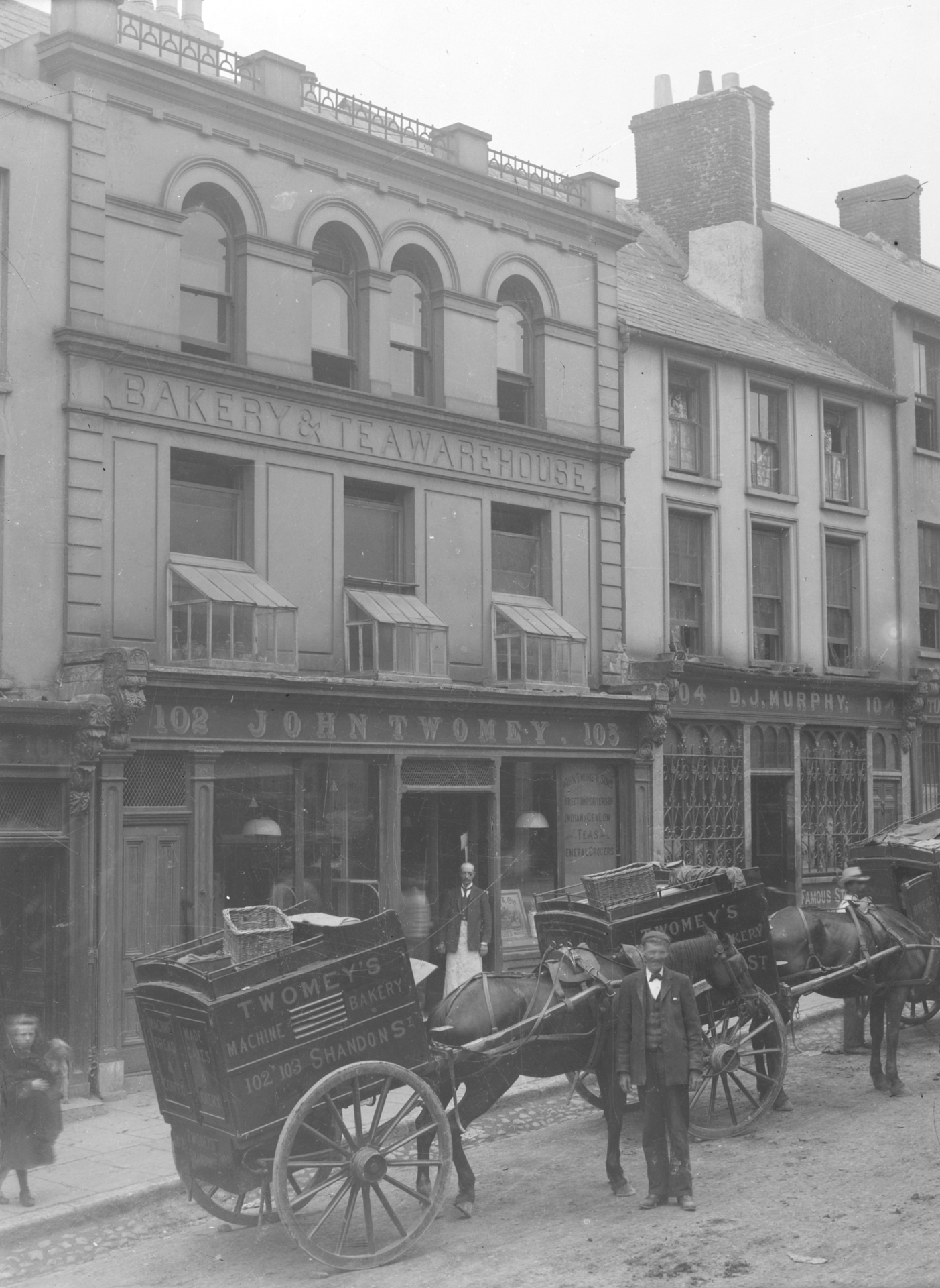 A Happy Twomey Thursday to you and welcome to the heart of Cork City. There was great activity around todays photo with contributions from [/photos/129555378@N07/ sharon.corbet] [/photos/gnmcauley/ Niall McAuley] [/photos/47297387@N03/ Carol Maddock] [/photos/beachcomberaustralia/ beachcomberaustralia] [/photos/foxglove/ Foxglove] [/photos/20727502@N00/ guliolopez] and [/photos/dorameulman/ dorameulman] The comments are a must read and give a great account of business on Shandon Street in the early part of the last century. But what about - Machine Bakery? [/photos/47297387@N03/ Carol Maddock] provides a gem of a post with the help of the Cork Examiner's archive. Lots of ads in the Cork Examiner in the early 1890s for John Twomey advertising “High-Class Bread at Moderate Prices” and “Van Deliveries Daily to all parts of City and Suburbs”. I’m wondering if machine made bread was quite a new phenomenon, as all of the ads list the advantages of bread made by machinery… 1. Sweetness, by the more rapid and skilful treatment in its manufacture. 2. Fineness of texture by being properly, yet powerfully, kneaded. 3. Colour, by having the various flours perfectly and thoroughly blended. 4. Flavour and moisture are retained by the ability to finish the work at the exact moment required by fermentation. 5. Quality is always uniform by having a perfectly unvaried system of treatment. 6. Cleanliness by being free from hand labour. This alone is commendable. Photographer: Fergus O’Connor Collection: Fergus O’Connor Collection Date: Circa 1910 - 1915 NLI Ref: OCO 86 You can also view this image, and many thousands of others, on the NLI’s catalogue at